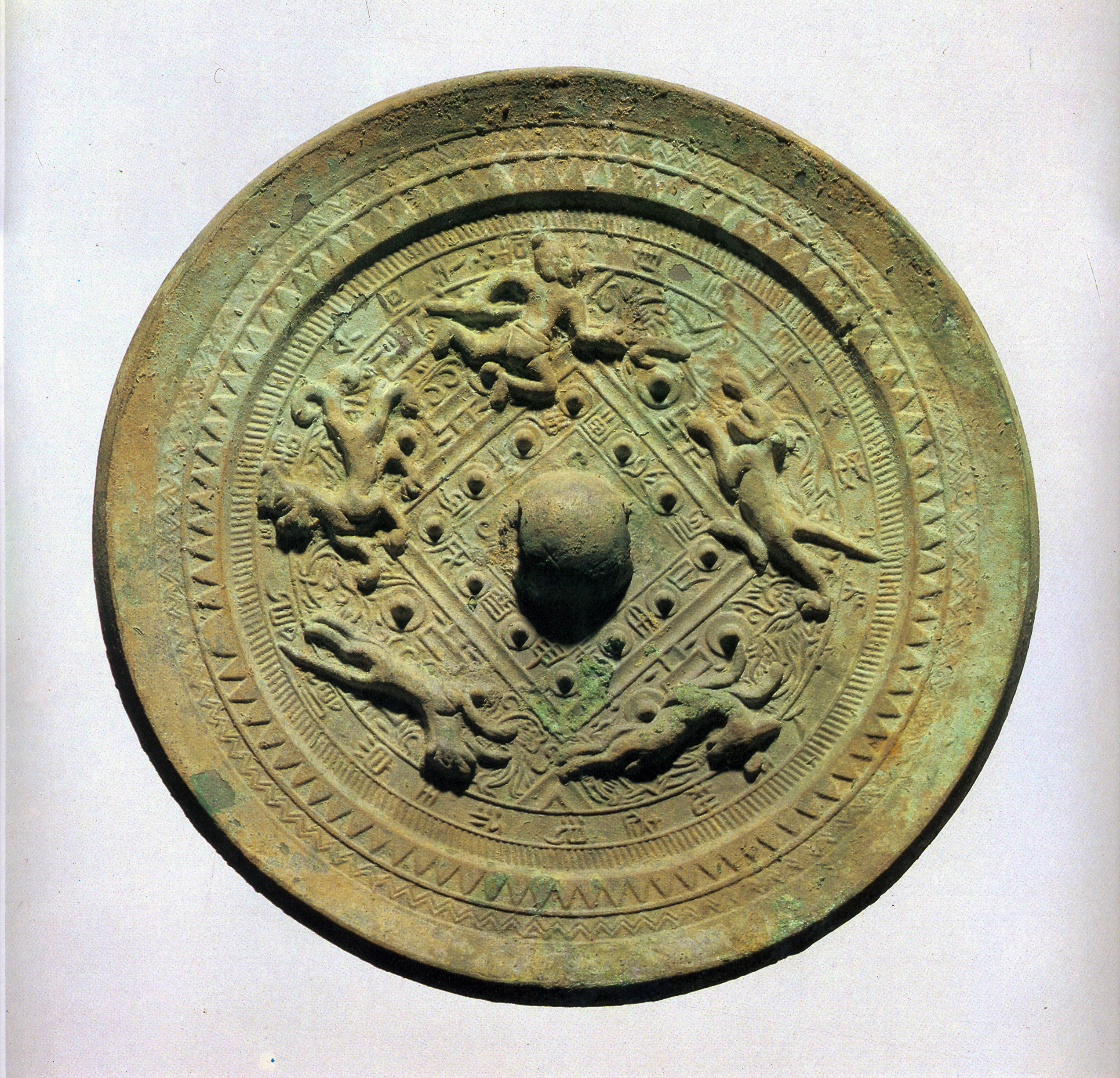 Bronze mirror carved strange animal from King Muryeong's tomb, Korea